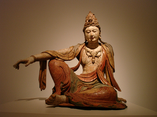 Seated Bodhisattva Avalokitesvara (Guanyin) 11th century Chinese Northern Song dynasty (960–1127) Wood, gesso, and pigment with gilding Place made: Shanxi province - St. Louis Art Museum - St. Louis, Missouri